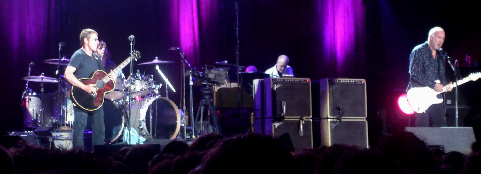 The Who performing at the Rotterdam Ahoy'